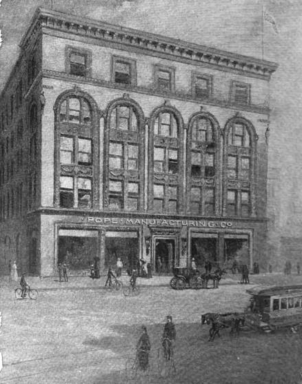 view of the Pope Mfg. Co. building at no. 221 Columbus Ave, Boston, USA